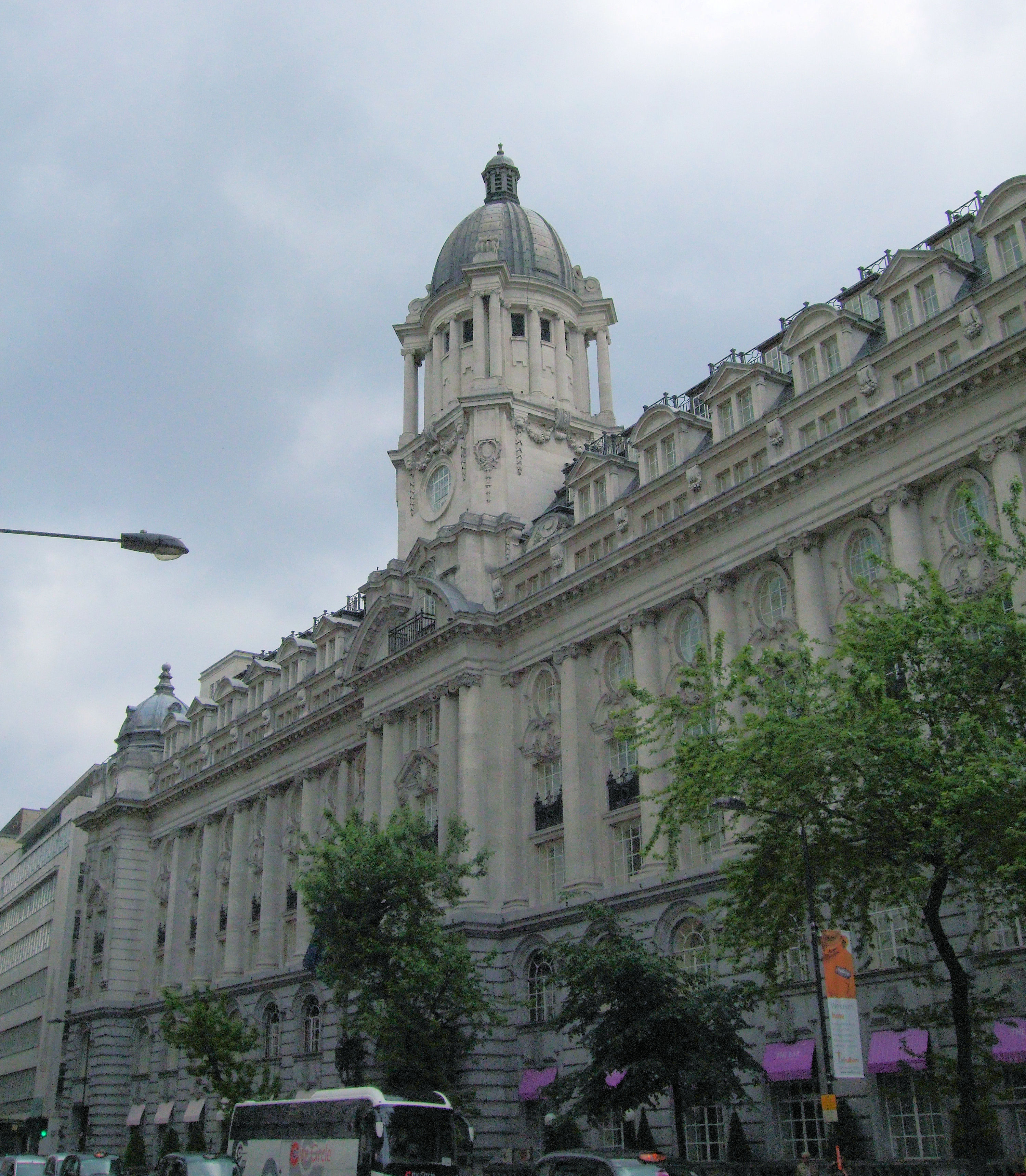 1-Renaissance Chancery Court Hotel, London, England